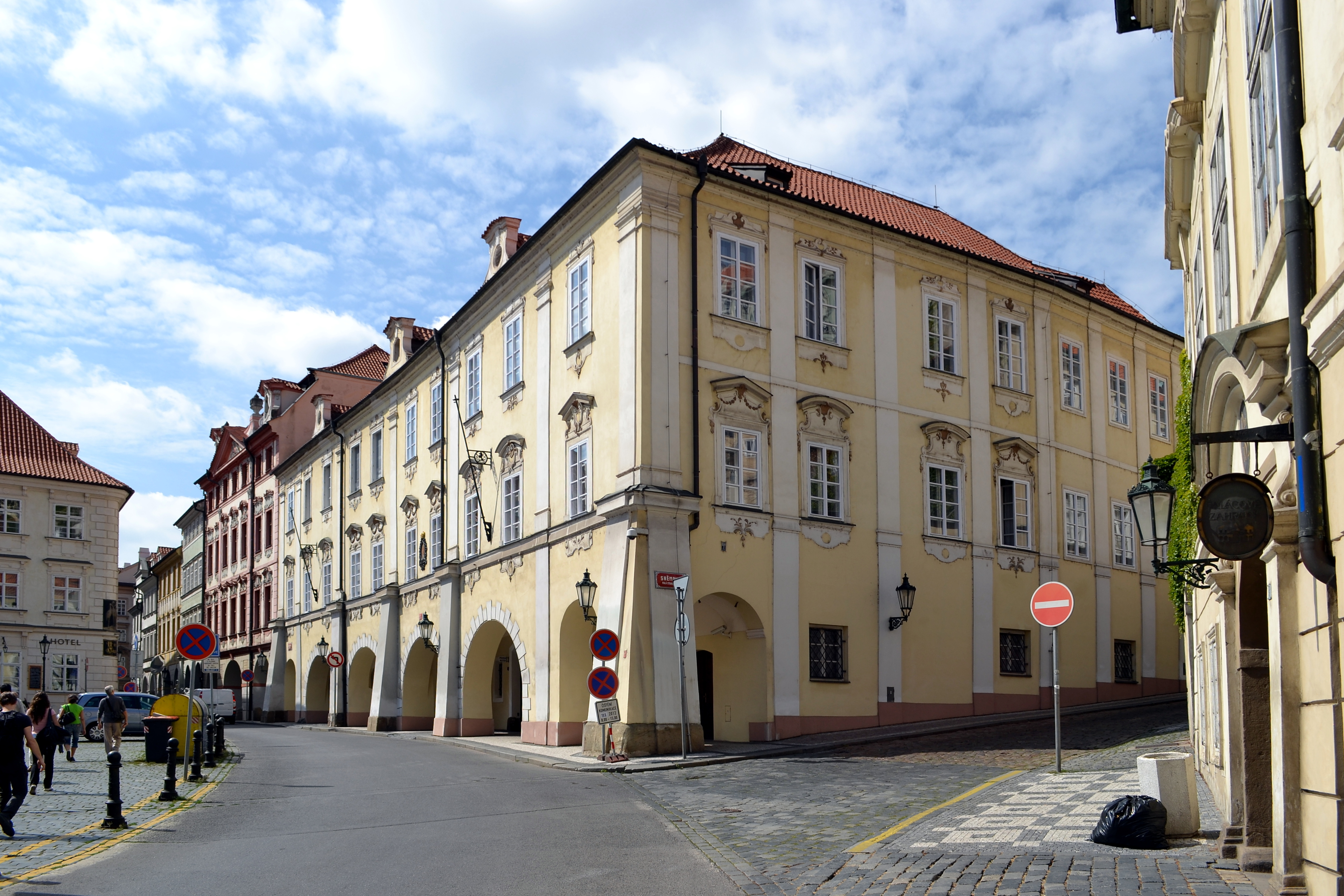 Aueršperk palace (aka Clary-Aldringen palace), Valdštejnské náměstí 16/1, Malá Strana, Prague 1, Czech Republic.